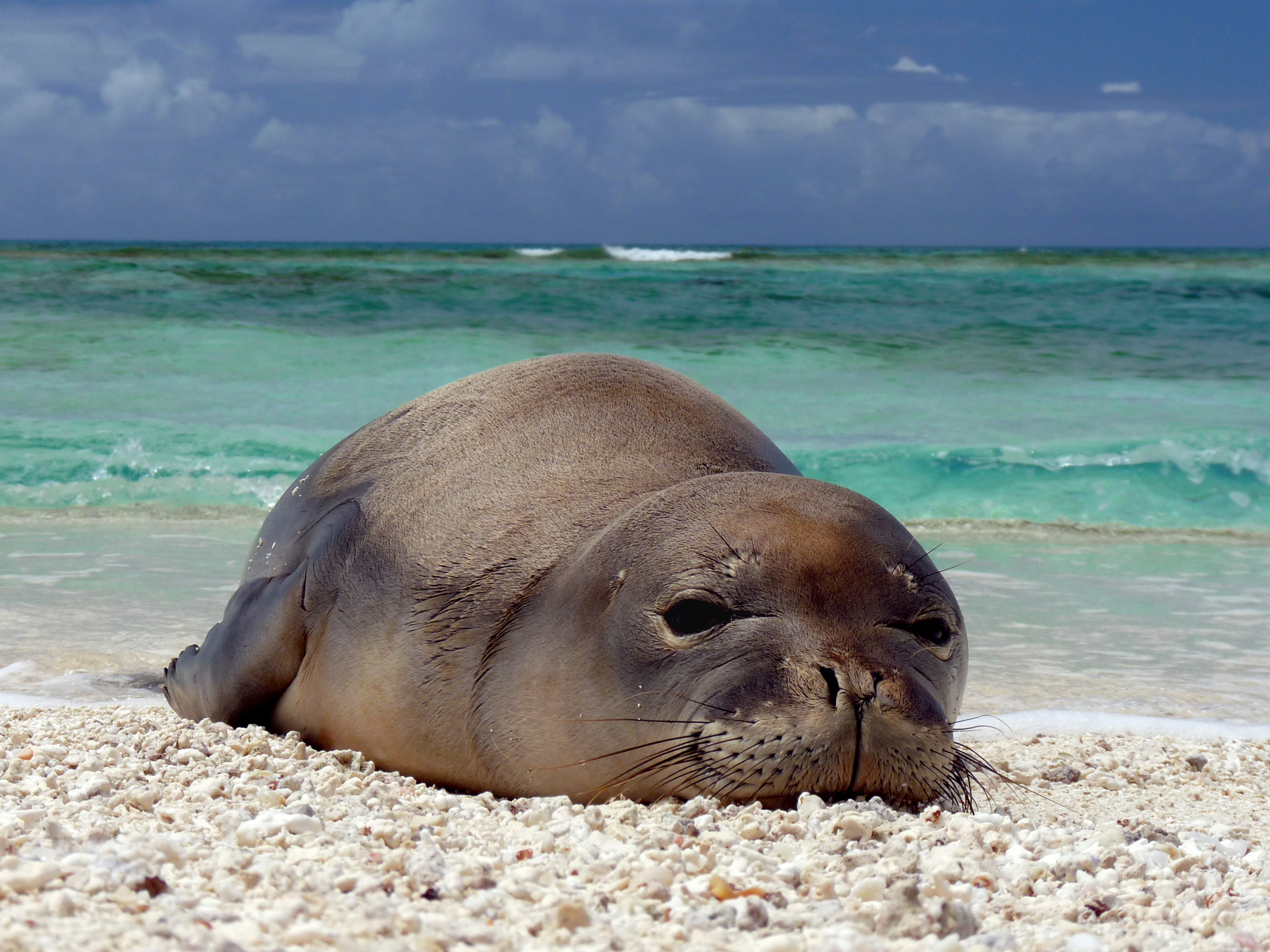 A newly weaned Hawaiian monk seal pup rests at Trig Island, French Frigate Shoals.